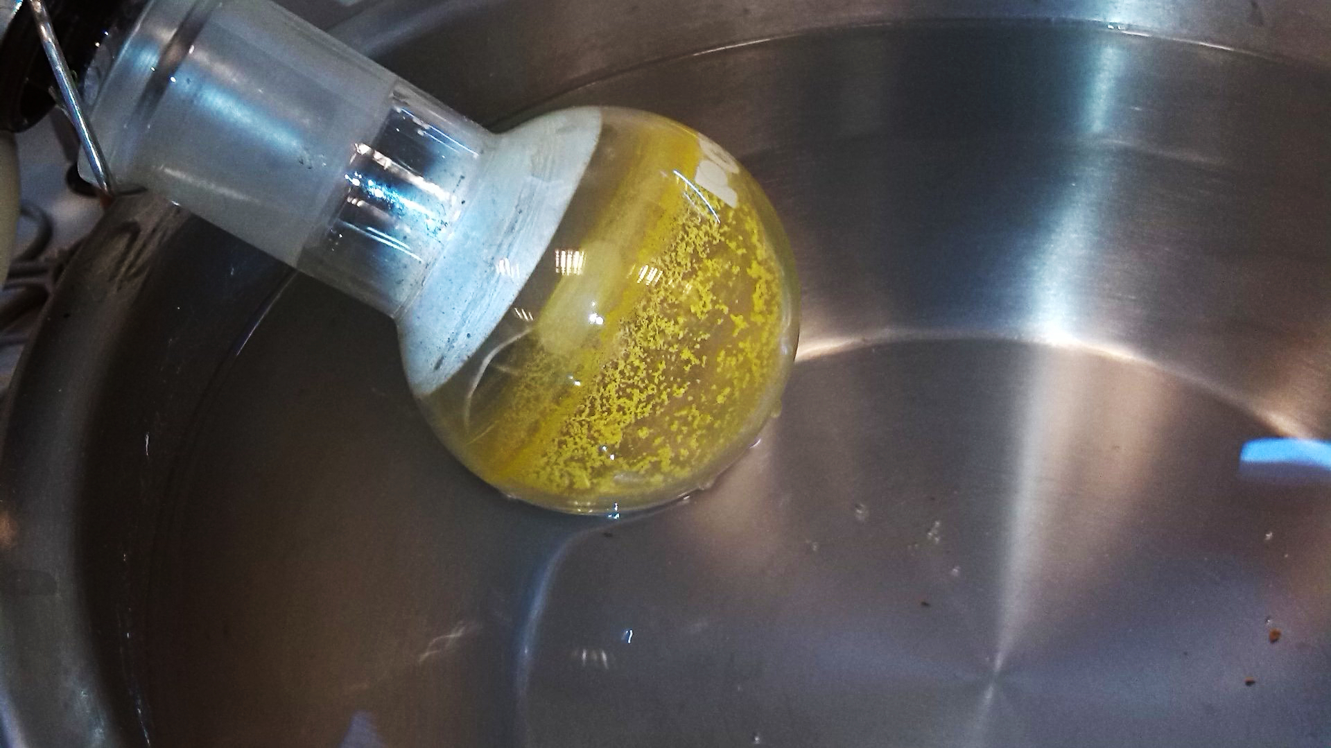 Fluorenone in a spherical flask, after removing the solvent in a rotary evaporator.